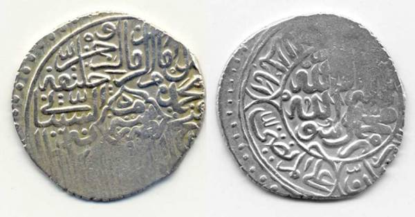 coin of Sheybani khan 1510 Bukhara.